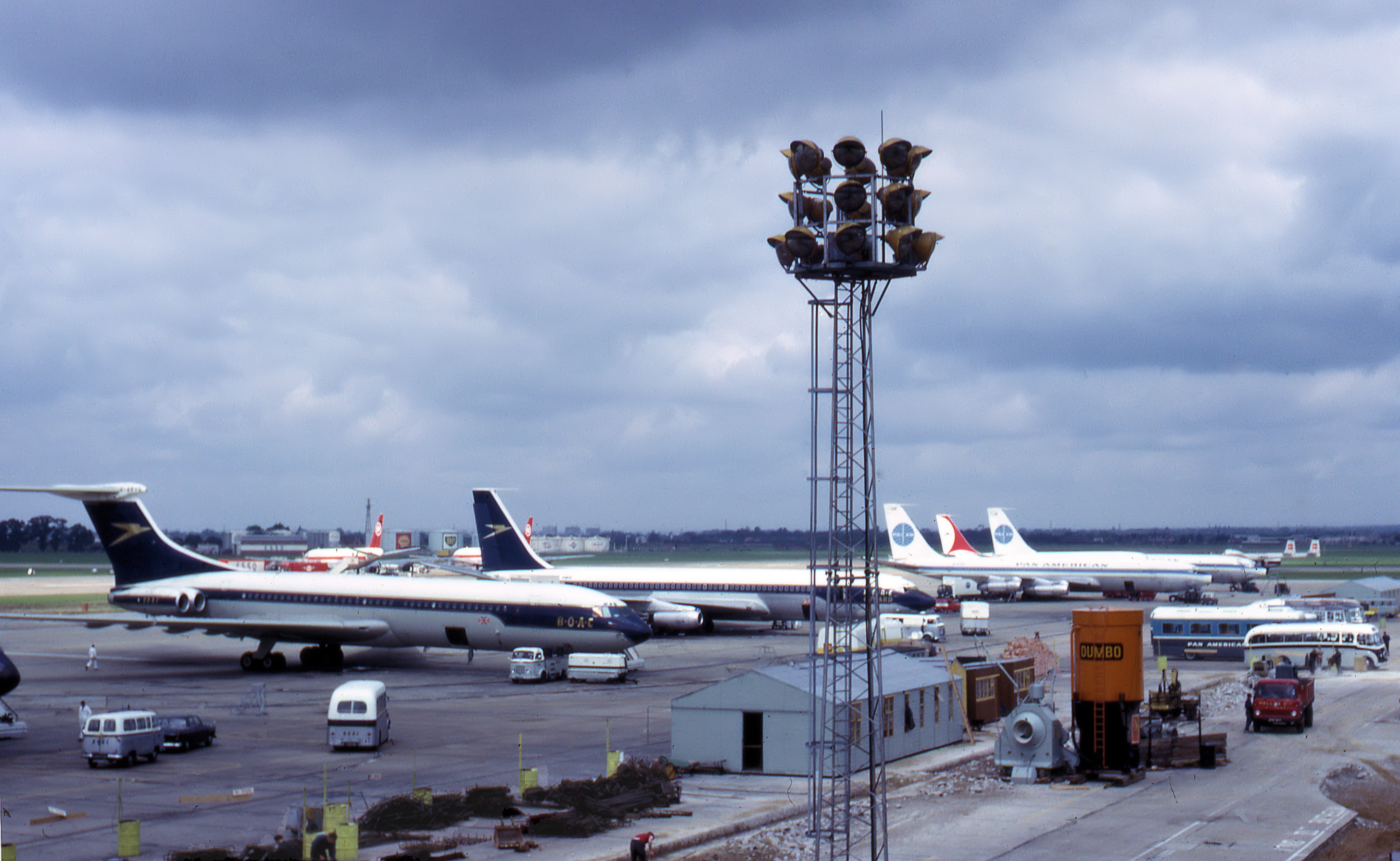 London Heathrow Airport in 1965. Nearest the camera are two BOAC aircraft – a Vickers VC10 (with the high tail) and a Boeing 707. Then two PanAm 707s. (Between them I think there’s an Air India 707) The aircraft vaguely seen in the distance, on the far right, is a BEA Argosy (with twin booms). On the left in the background are two Air Canada DC-8's.